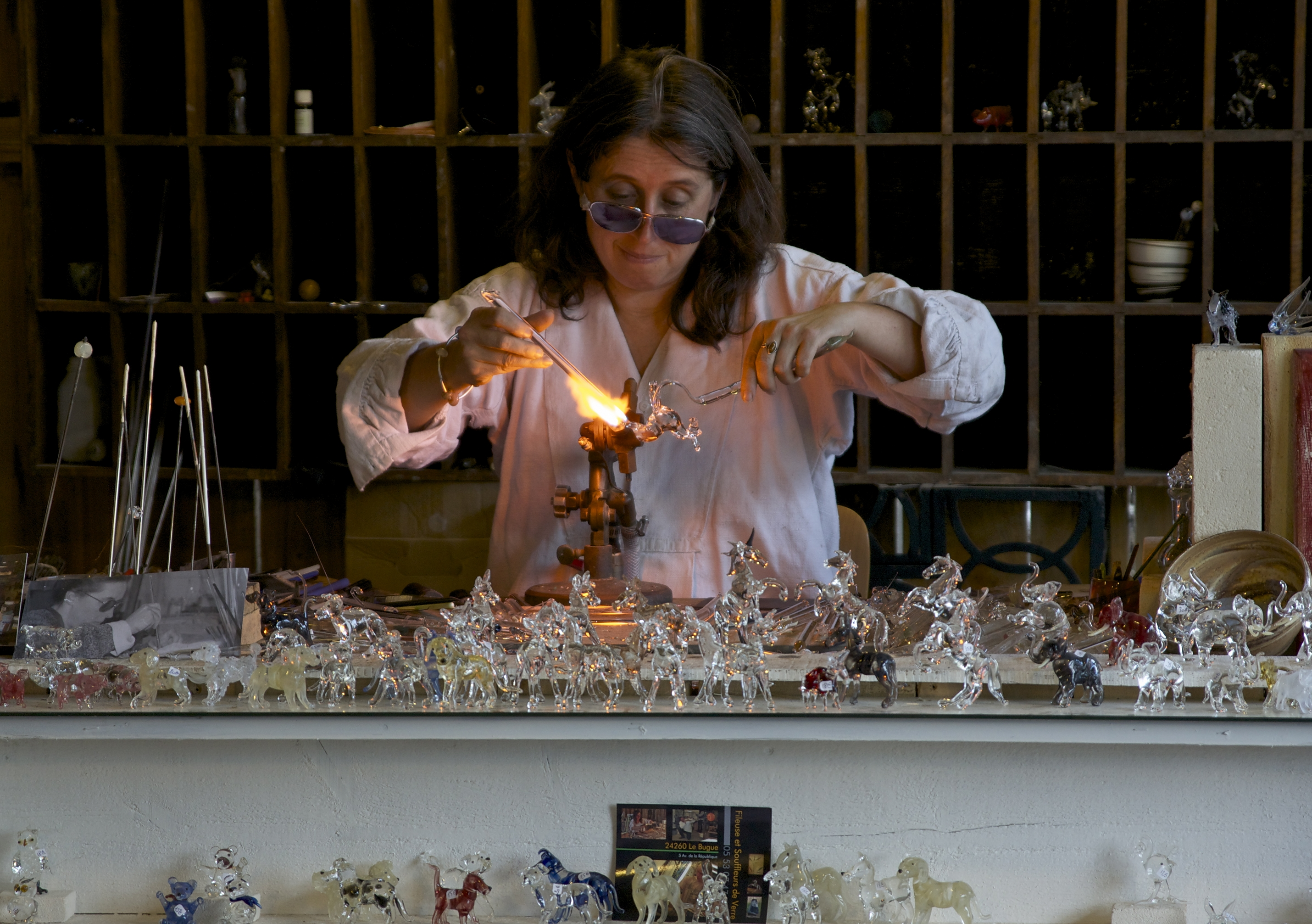 Glass lampworking in Village of Bournat, Le Bugue, Dordogne, France.